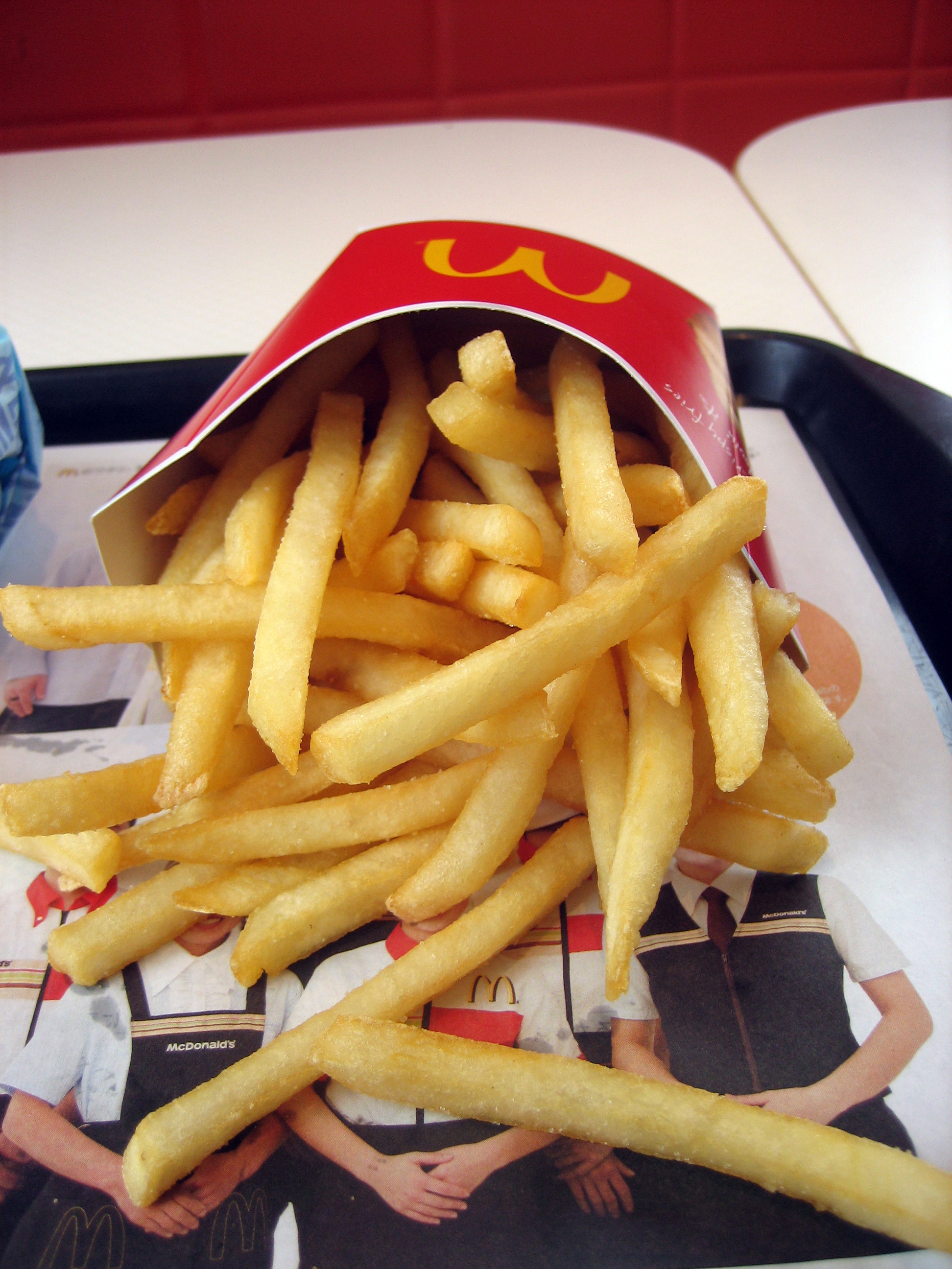 French fries currently sold at restaurant of McDonald's Co. Japan Ltd.